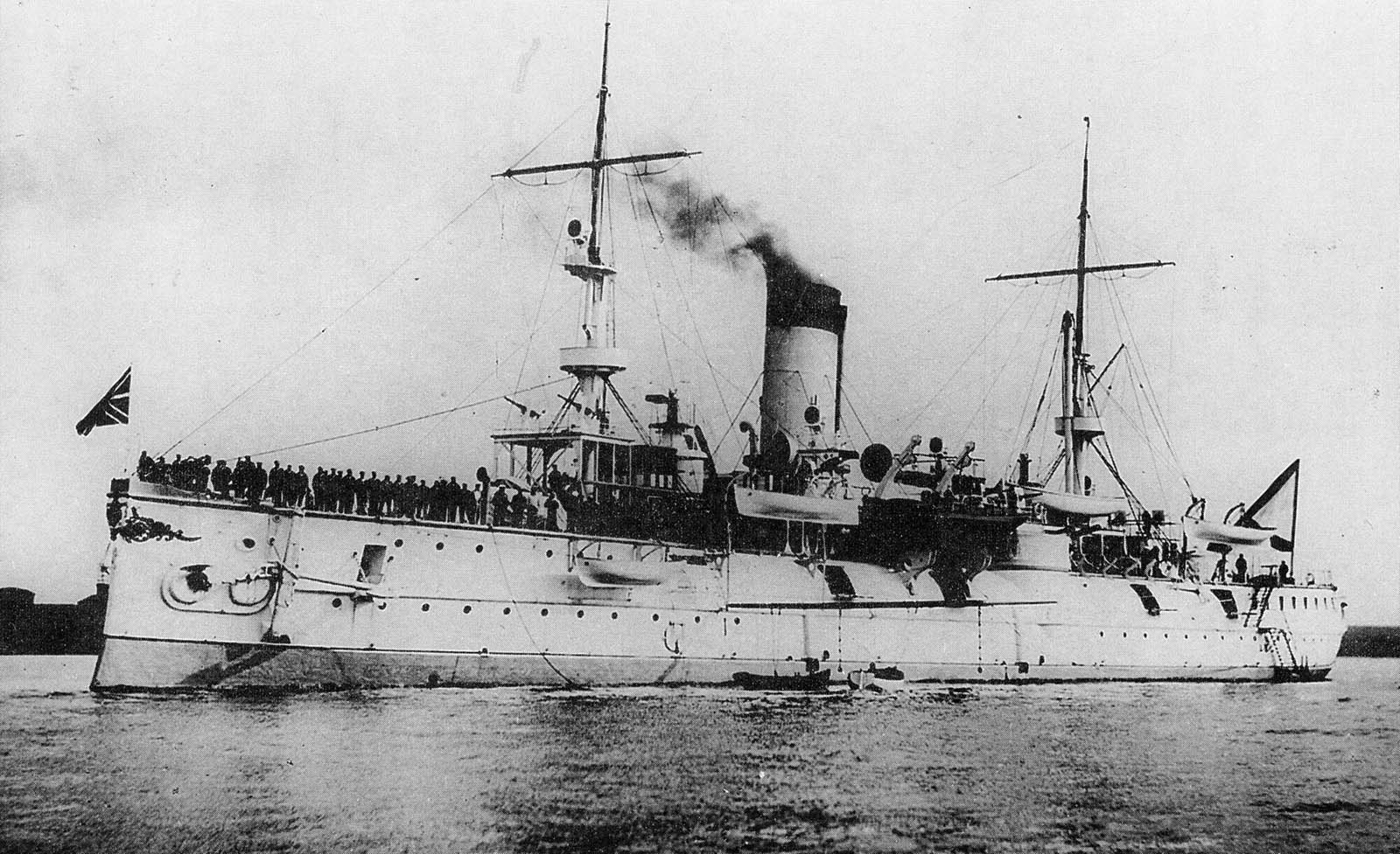 Imperial Russian arumoured cruiser Admiral Nakhimov, 1899.